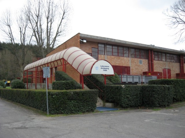 Centro Sportivo "Giulio Onesti" in Rome.